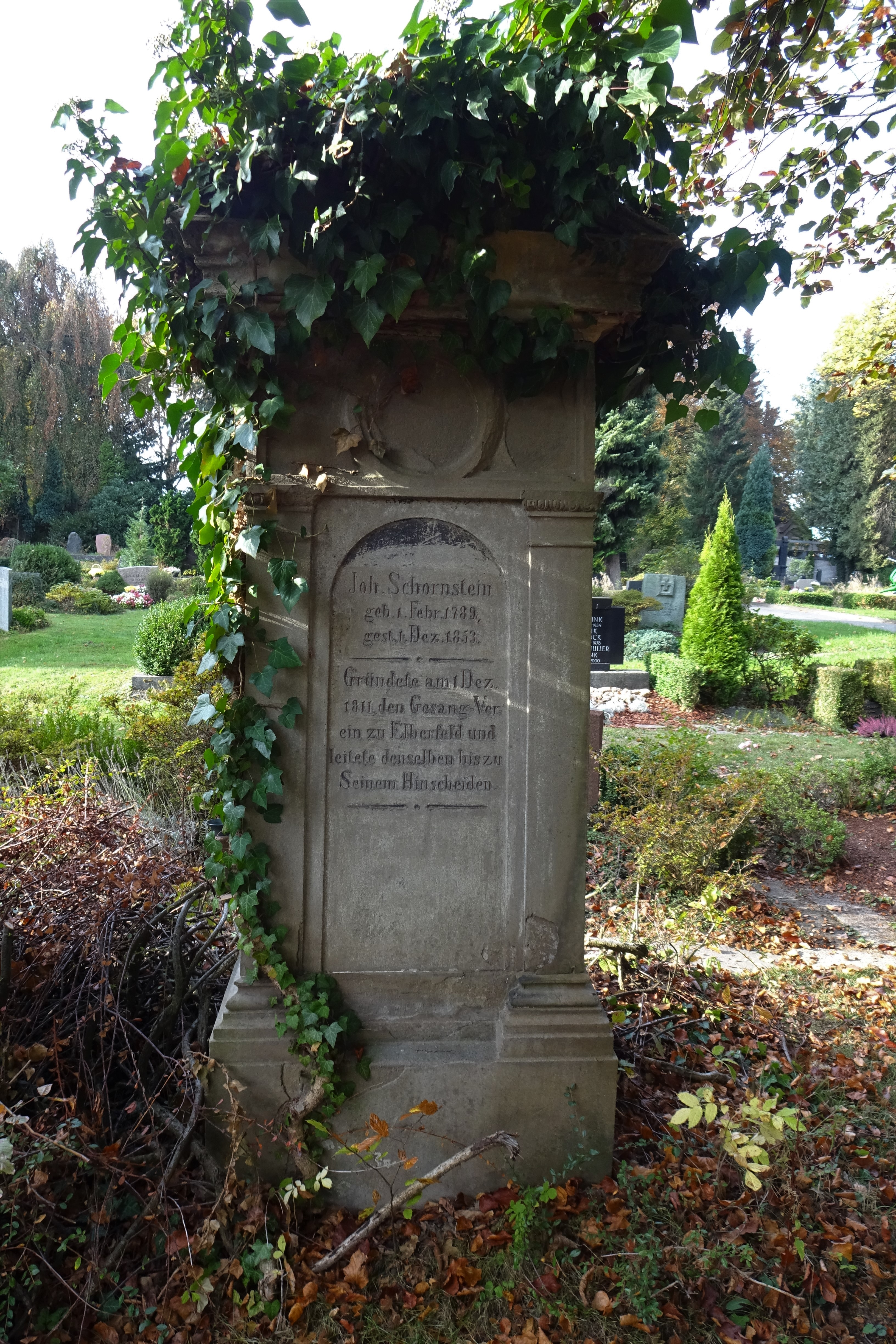 Grave of musician Johannes Schornstein in Reformierter Friedhof Hochstraße in Wuppertal